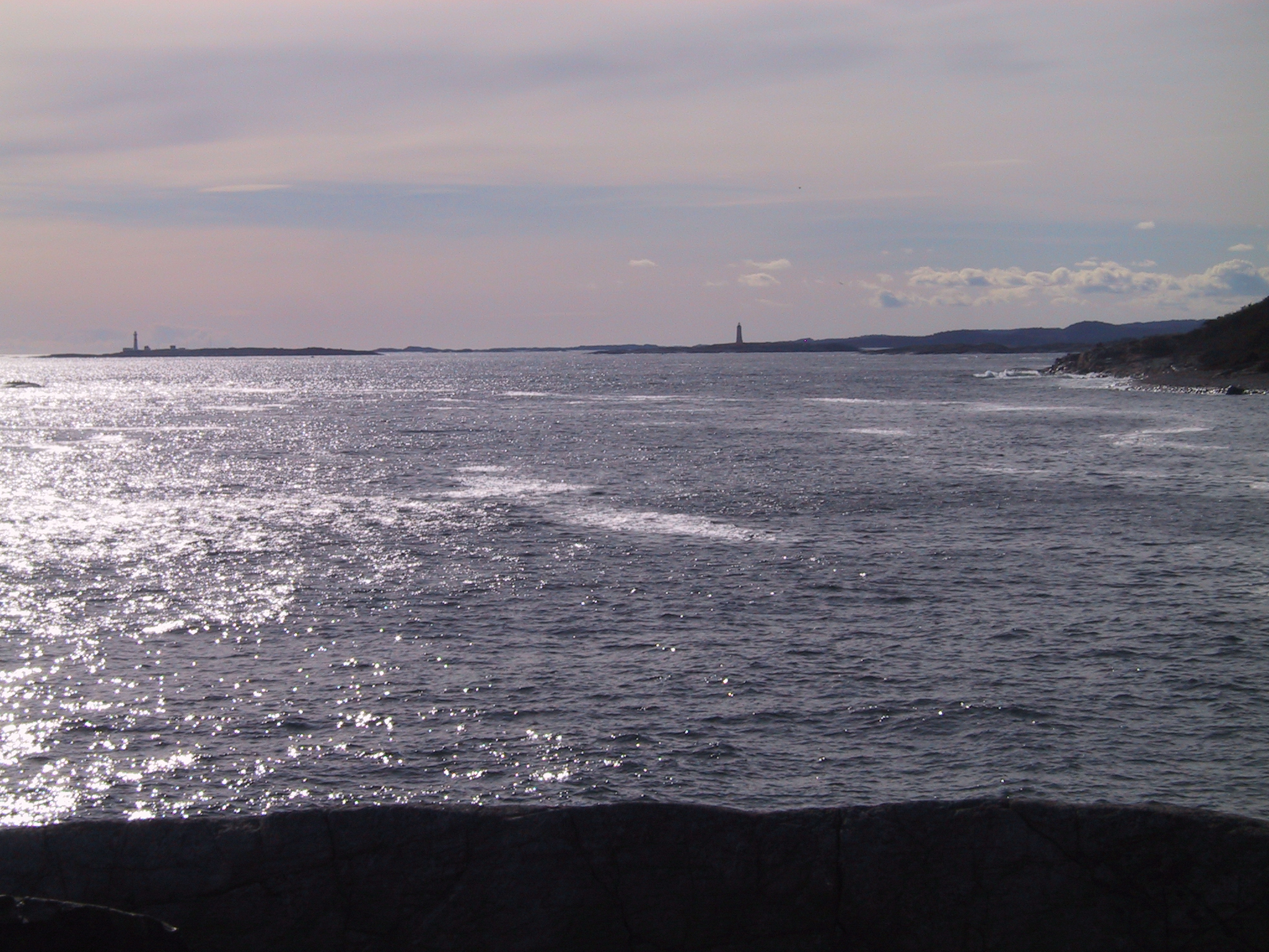 The lighthouses Store Torungen and Lille Torungen, near the town of Arendal in Norway